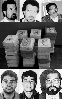 Different images from US Federal Government (DEA) put together